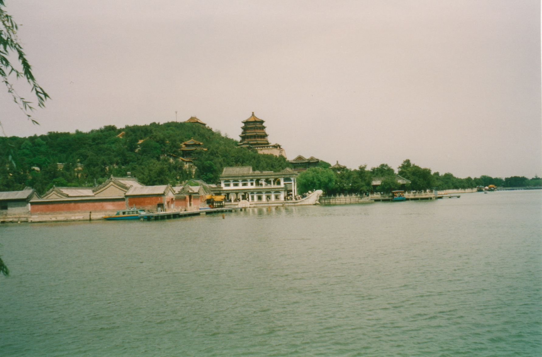 The Summer Palace is a palace in Beijing, China. The Summer Palace is mainly dominated by Longevity Hill and the Kunming Lake. It covers an expanse of 2.9 square kilometers, three quarters of which is water. Longevity Hill is about 60 meters high and houses many buildings positioned in sequence. The front hill is rich in the splendid halls and pavilions, while the back hill, in sharp contrast, is quiet with natural beauty. The central Kunming Lake covering 2.2 square kilometers was entirely man made and the excavated soil was used to build Longevity Hill. In the Summer Palace, one finds a variety of palaces, gardens, and other classical-style architectural structures. (From Wikipedia